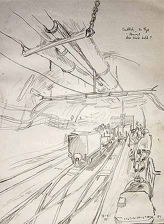 Halvard Hatlen (1962) Norwegian visual artist. Pencil drawing 1989, Pattberg, Moers, Germany. "Endlich zu tage, kommt der Korb bald"